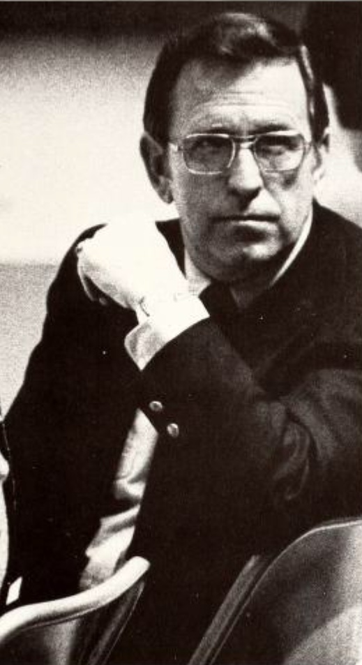 Kansas State University Basketball coach Jack Hartman in 1976